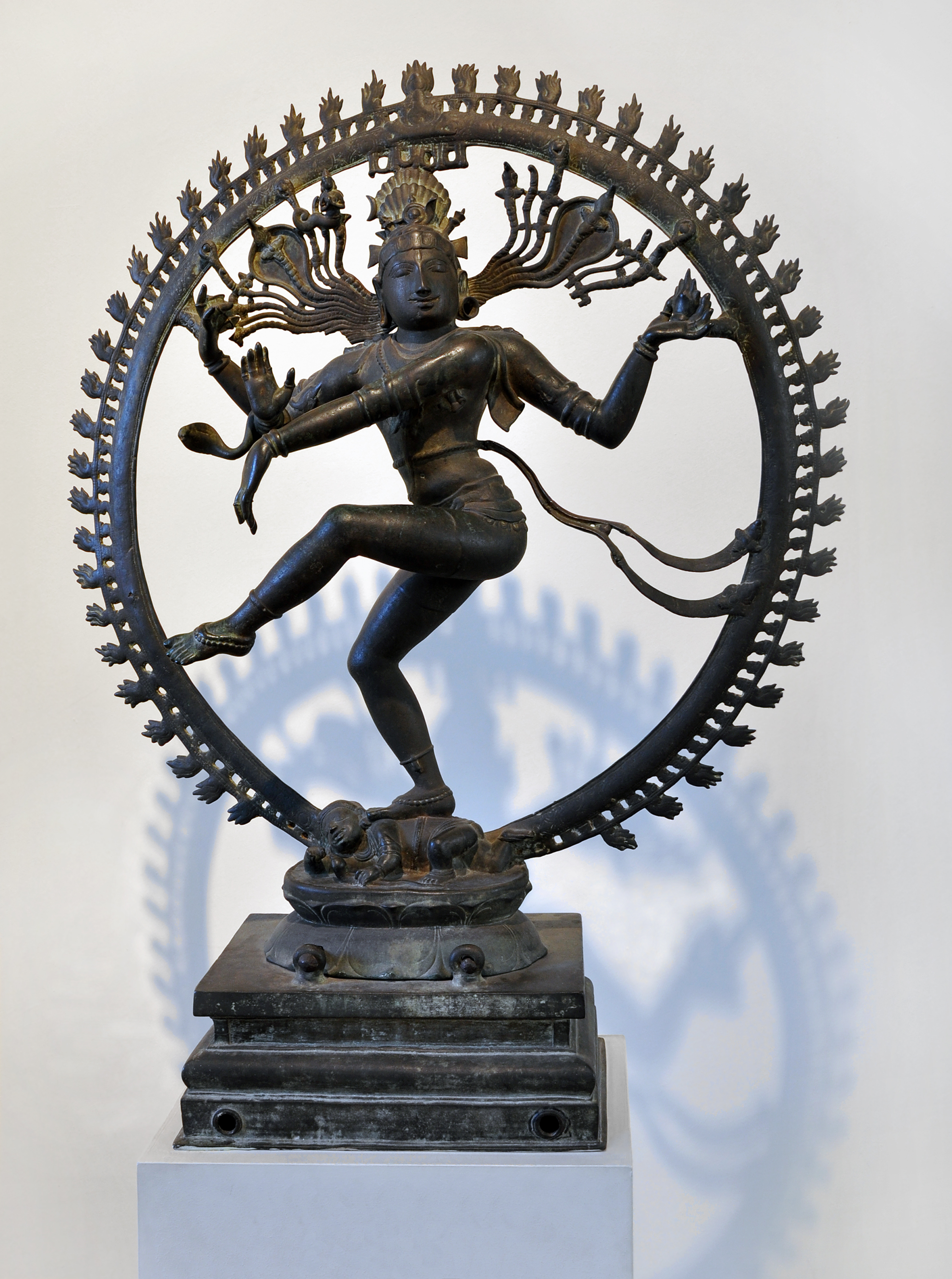 Shiva Nataraja, Chola style, from Tanjore, South India, 13th century, bronze. Royal Art and History Museums (MRAH), Jubilee Park, Brussels.